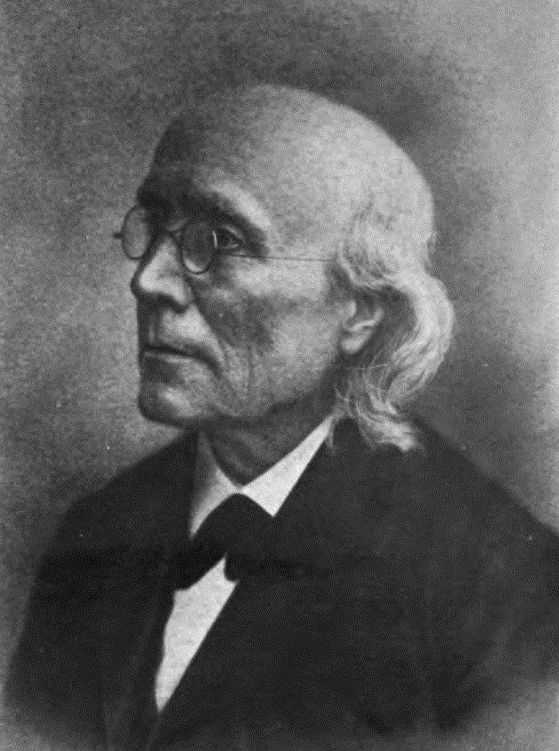 Picture of Gustav Theodor Fechner